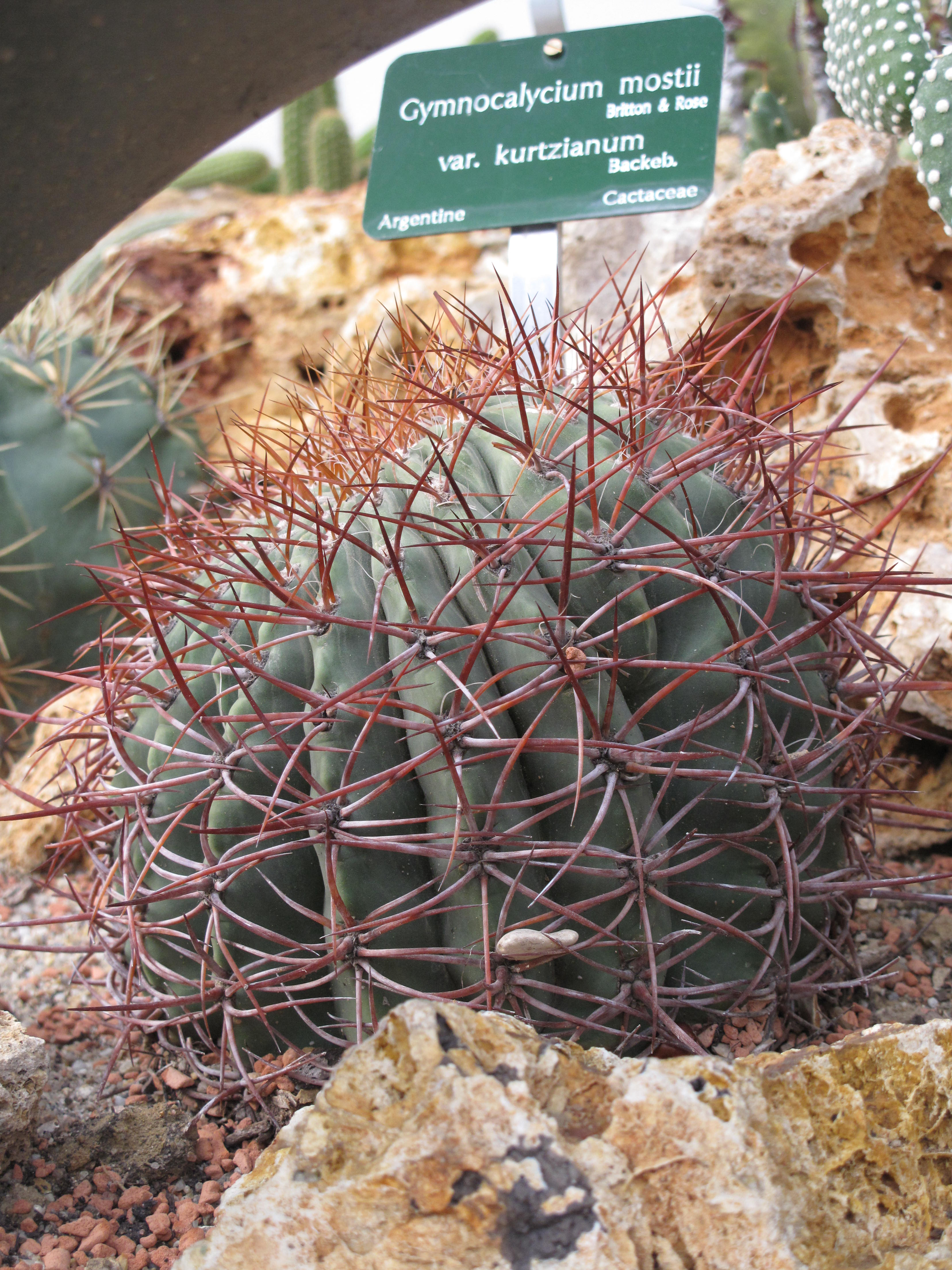 Gymnocalycium mostii in a greenhouse of the Jardin des Plantes in Paris.